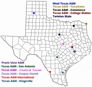 A map of the Texas A&M System campuses within the State of Texas.